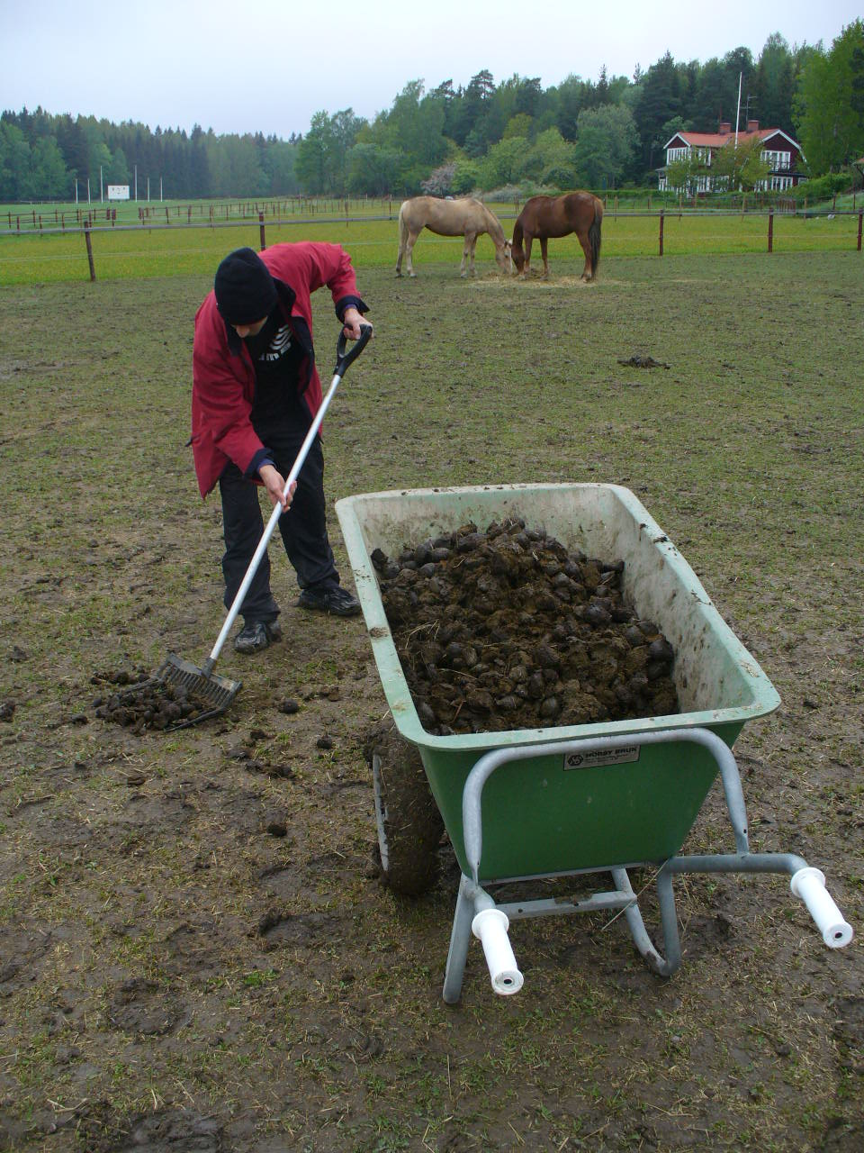 Clearing a horse pen of dung at Almare-Stäket, Sweden